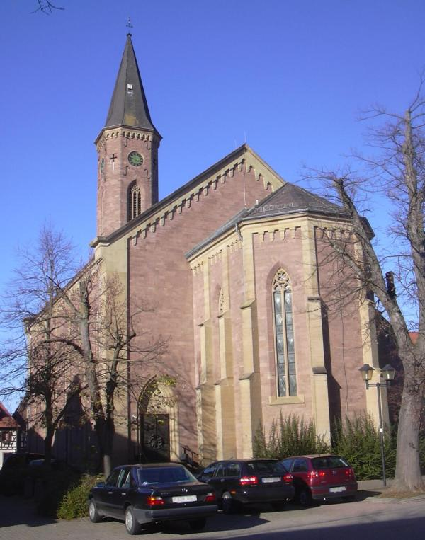 St. Martin's church in Münzesheim, Germany